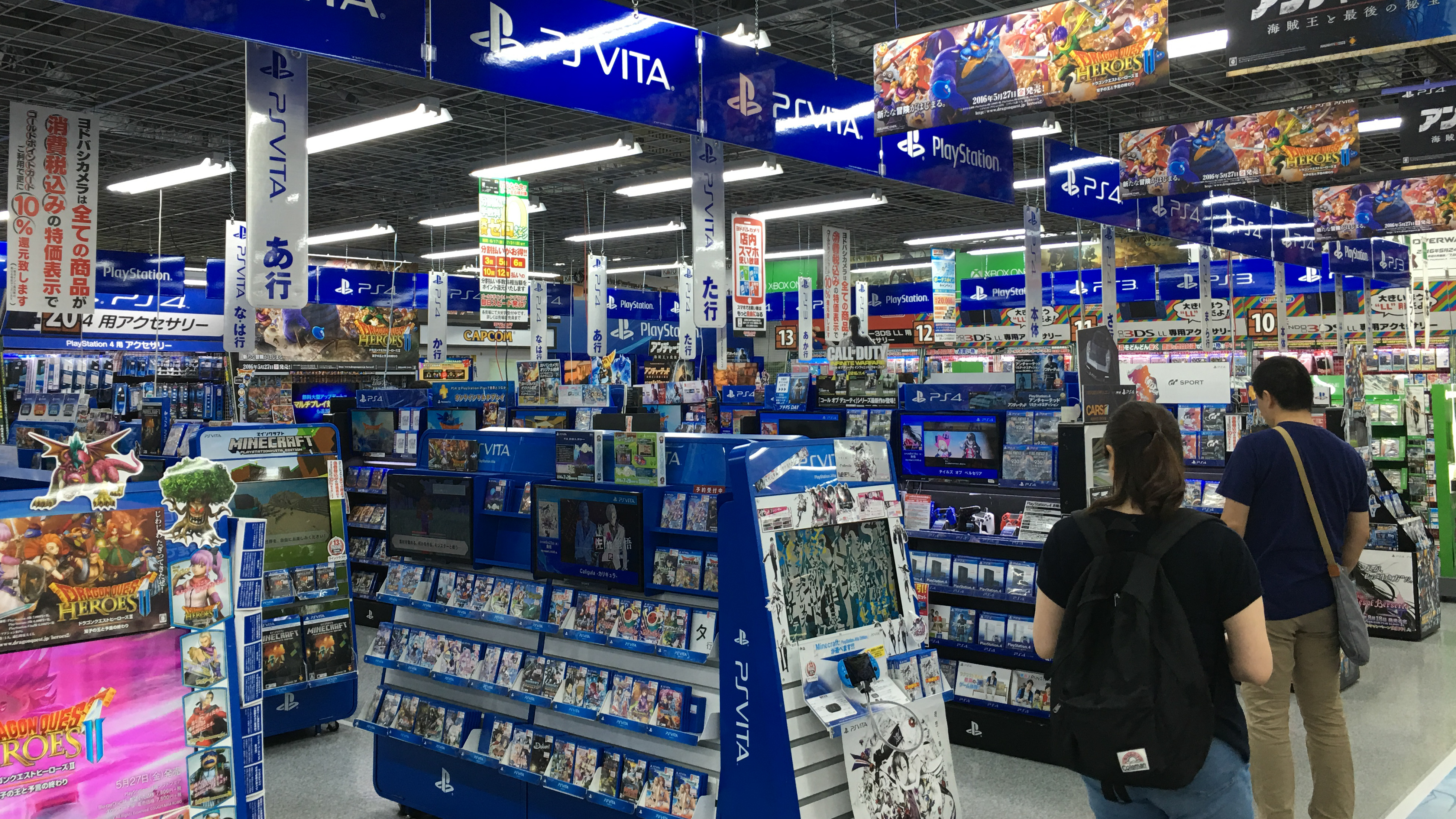 I had several hours before I needed to catch my plane back home so I decided to stock up on some games. I really enjoyed stopping by Yodobashi-Akiba. I could literally spend a day in there!